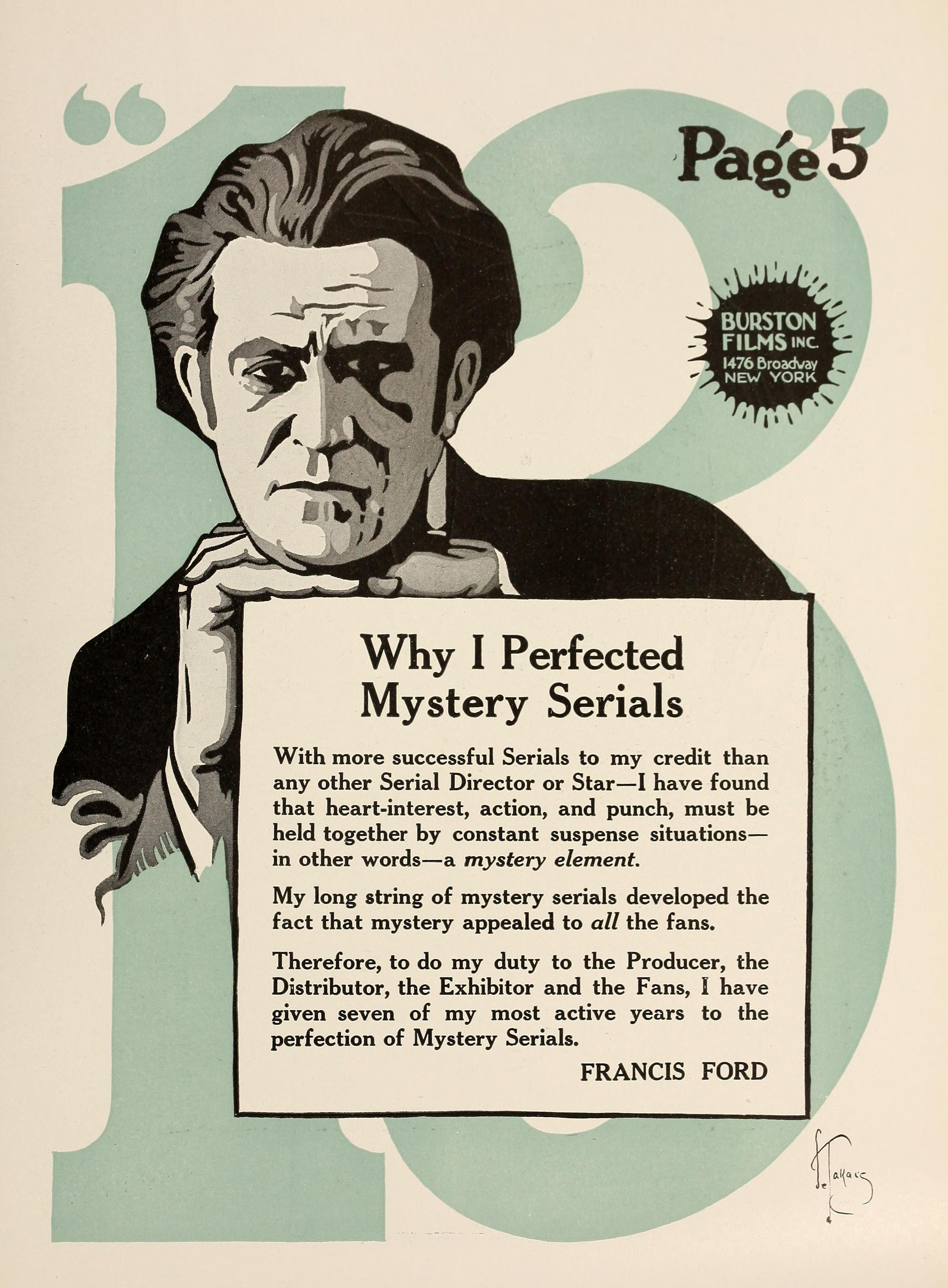 Advertisement in Moving Picture News representing Francis Ford